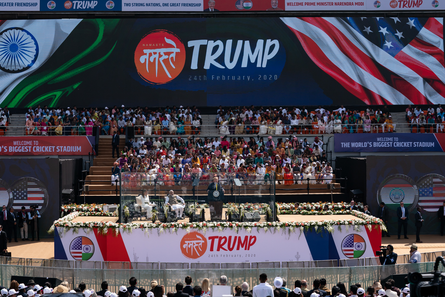 President Donald J. Trump, joined onstage by First Lady Melania Trump and Indian Prime Minister Narendra Modi, delivers remarks during the Namaste Trump Rally Monday, Feb. 24, 2020, at Motera Stadium in Ahmedabad, India. (Official White House Photo by Andrea Hanks)